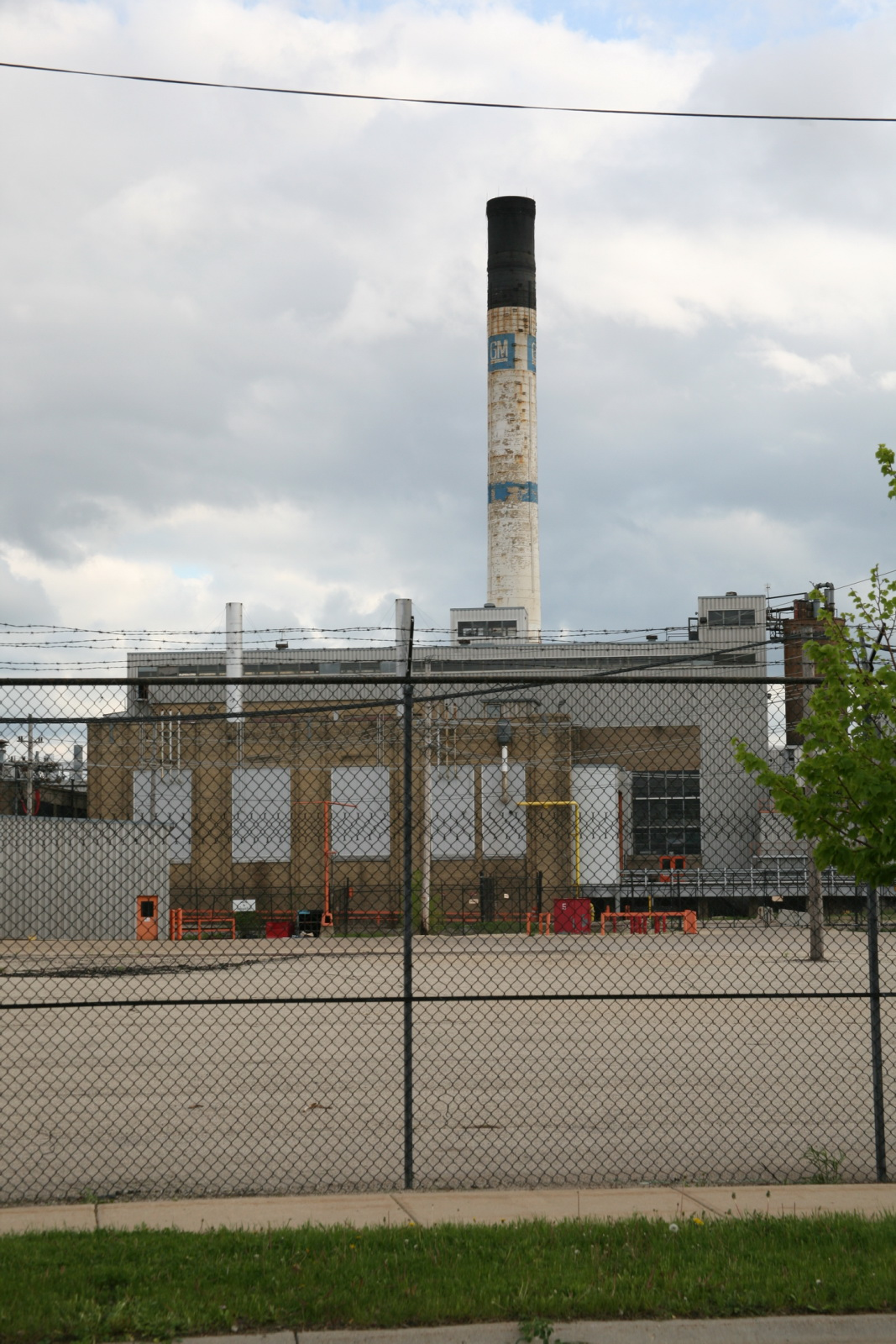 View of the Janesville GM Assembly Plant smoke stack